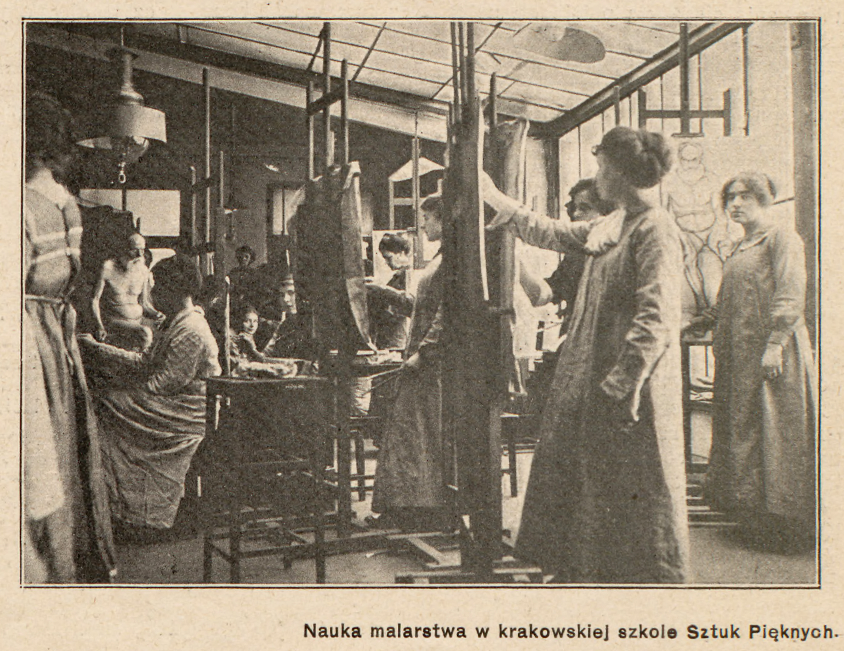 School of Fine Arts for Women of Maria Niedzielska